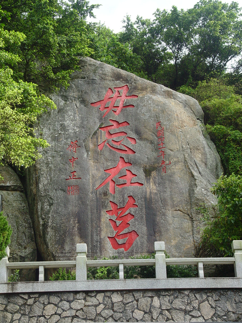 Calligraphy by former President Chiang Kai-shek etched on a rock in Kinmen reads, "Never forget our occupied country" - an allusion to the Warring States Period when the State of Qi, cornered into the City of Ju by the State of Yan, successfully counterattacked and retook its territory. This is intended as an analogy to the situation between the Republic of China and the People's Republic of China. Other slogans alluding to "retaking the mainland" can still be found in Kinmen.